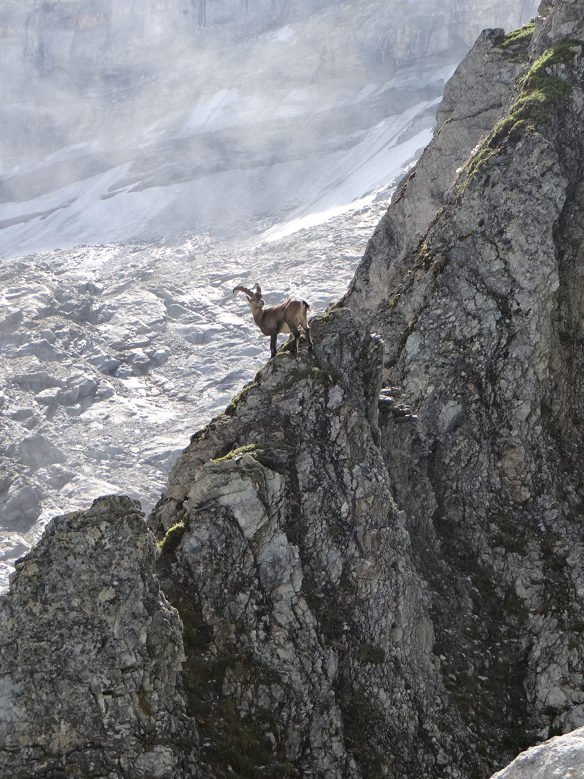 Ibex in the French Vanoise National Park near Pralognan la Vanoise